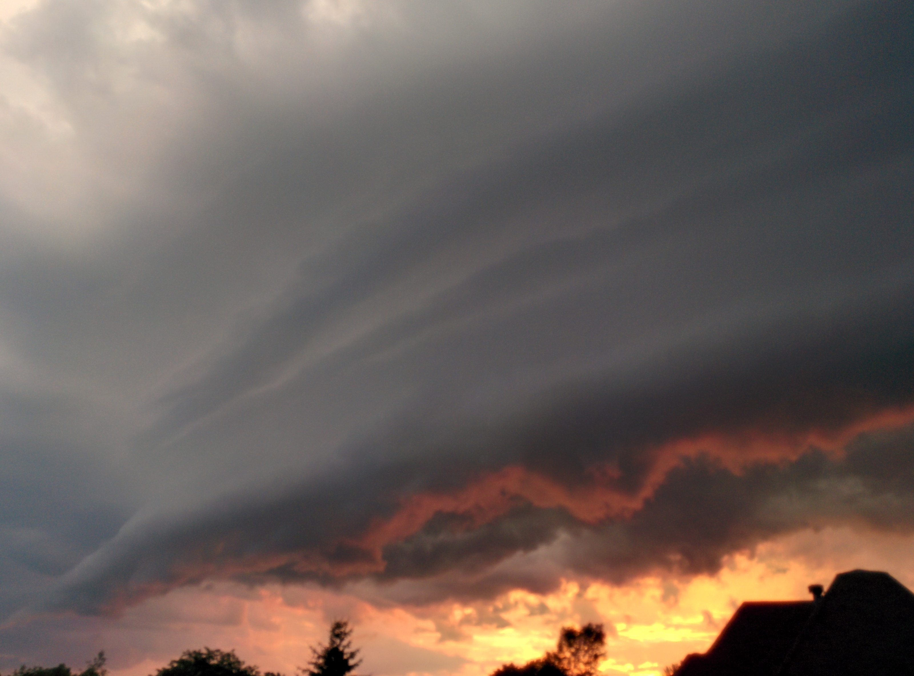 Shelf Cloud, L'Ile-Bizard, Canada (taken Sep 27 2015)